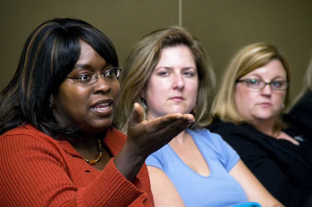 Diversity conference participants